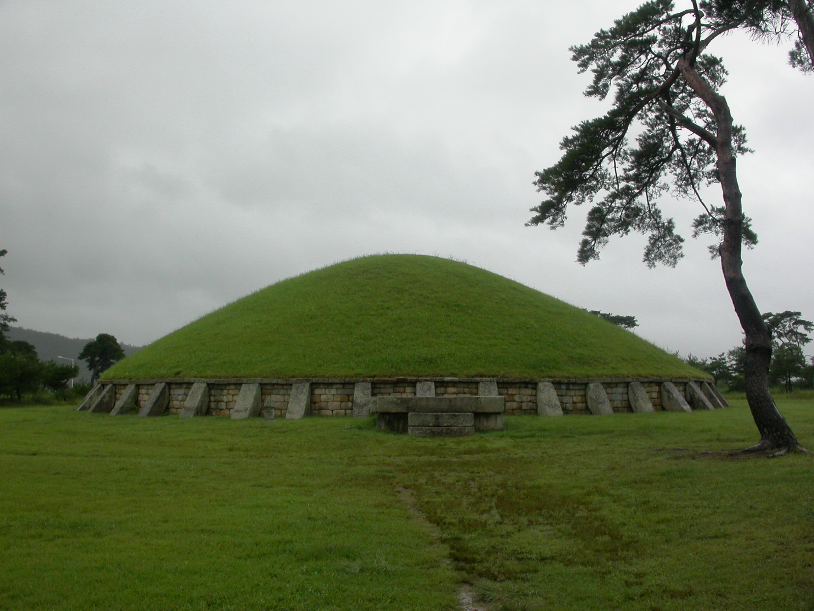 Royal Tombs of Sinmun of Silla